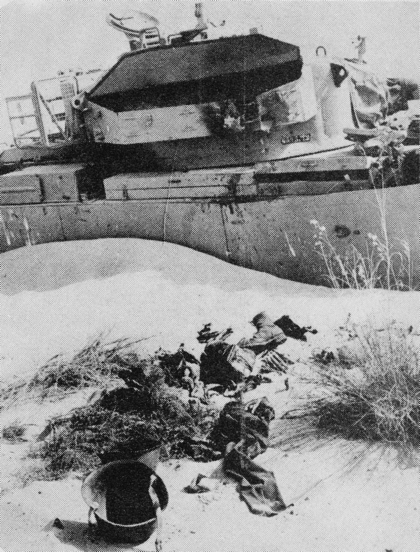 An Israeli Centurion tank knocked out in the Sinai during the Yom Kippur War. A penetration to the turret's rear is visible. In the foreground are the remains of an Israeli soldier.